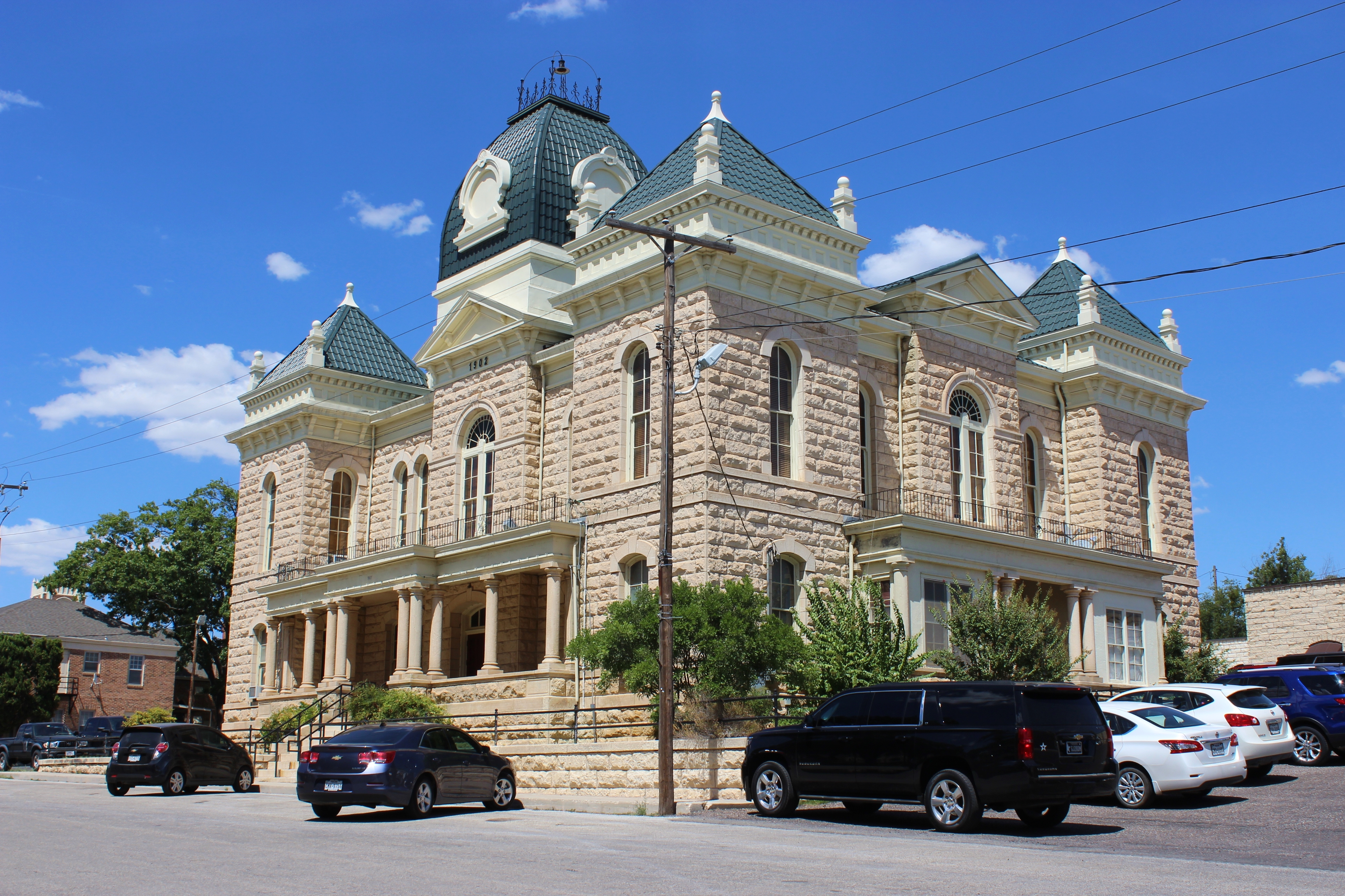 Crockett County Courthouse (c. 1902). Ozona, Texas.